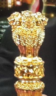 Ashoka Pillar Prize